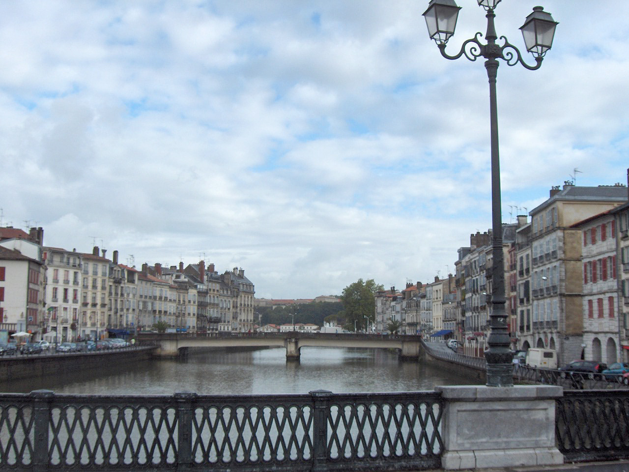 Bayonne, France; view on the river Nive